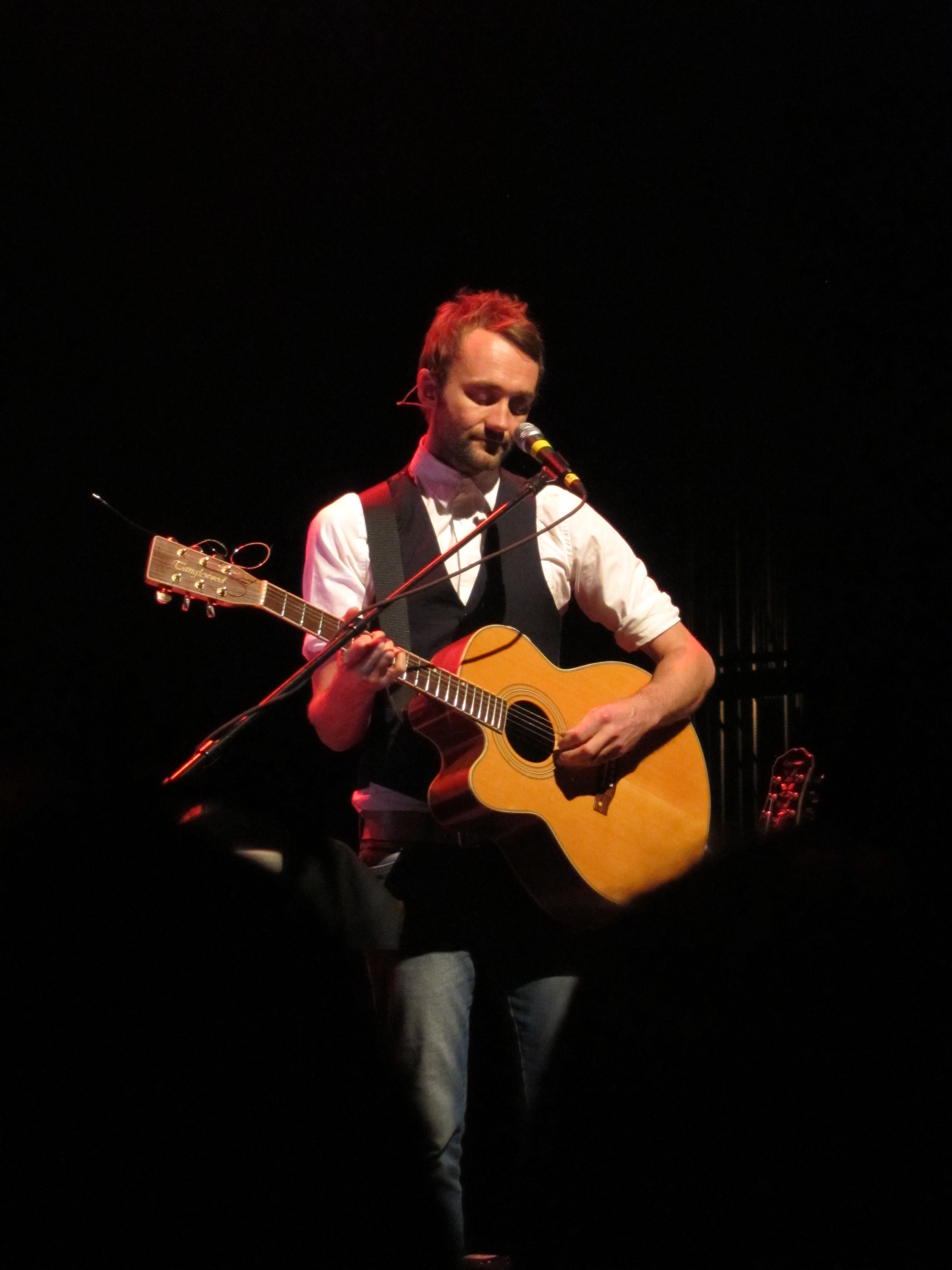 Musician Ben Christophers plays guitar and sings during an Imogen Heap concert in Miami Beach, Florida at the Fillmore Miami Beach at Jackie Gleason Theater.